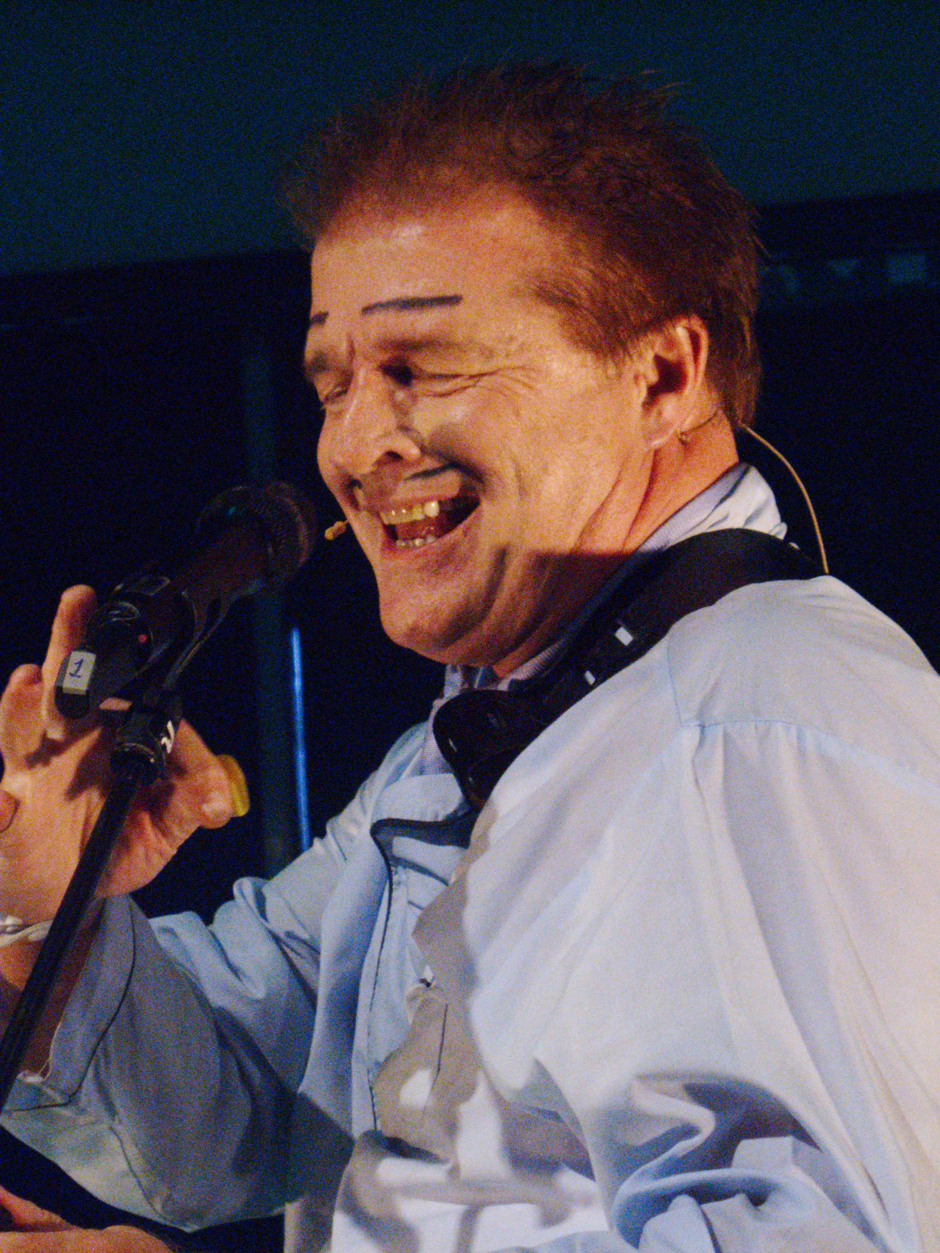 Peter Jan Rens as meneer Kaktus on the Zwart Cross Festival 2011